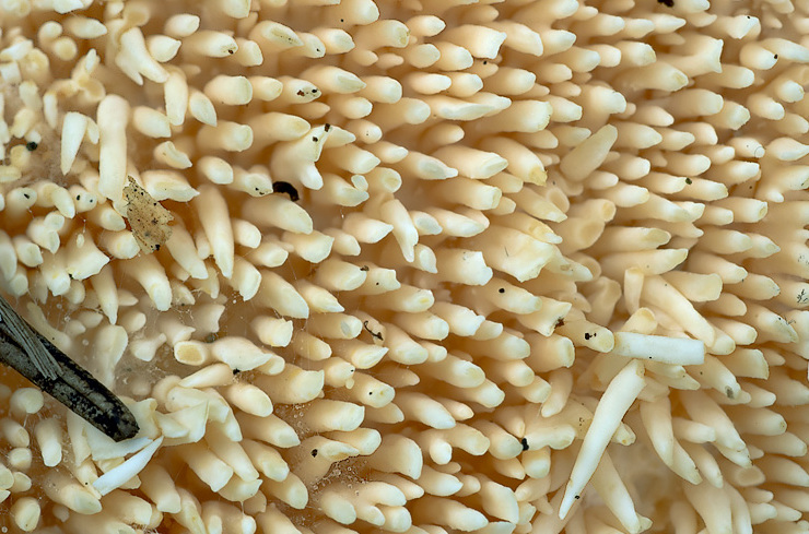 Closeup of the spines of the hydnoid fungus Hydnum repandum.